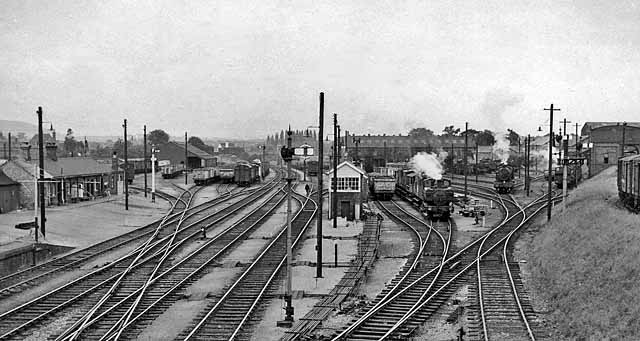 Hereford (Barton) Locomotive Depot and Yards. View southward, towards Red Hill Junction, Pontypool Road and Newport. This Depot was situated on the west side of the Moorfields Loop (Barrs Court Junction - Red Hill Junction) that by-passed Barrs Court, the main Hereford Station. Coded 85C, it had an allocation of about 50 locomotives in the 1950s, which catered for secondary passenger and freight traffic and yard work in the area, but to a limited extent on the main Shrewsbury - Hereford - Newport axis. In 1963 the allocation would have dwindled, but in early 1954 the following types were on its books: 8 'Hall' and 1 'Manor' 4-6-0s, 11 2-6-0s, 7 0-6-0s, 2 2-8-2Ts, 1 0-6-2T, 15 0-6-0Ts and 7 0-4-2Ts. The Depot was closed on 2/11/64, the Loop being disused from 8/66.